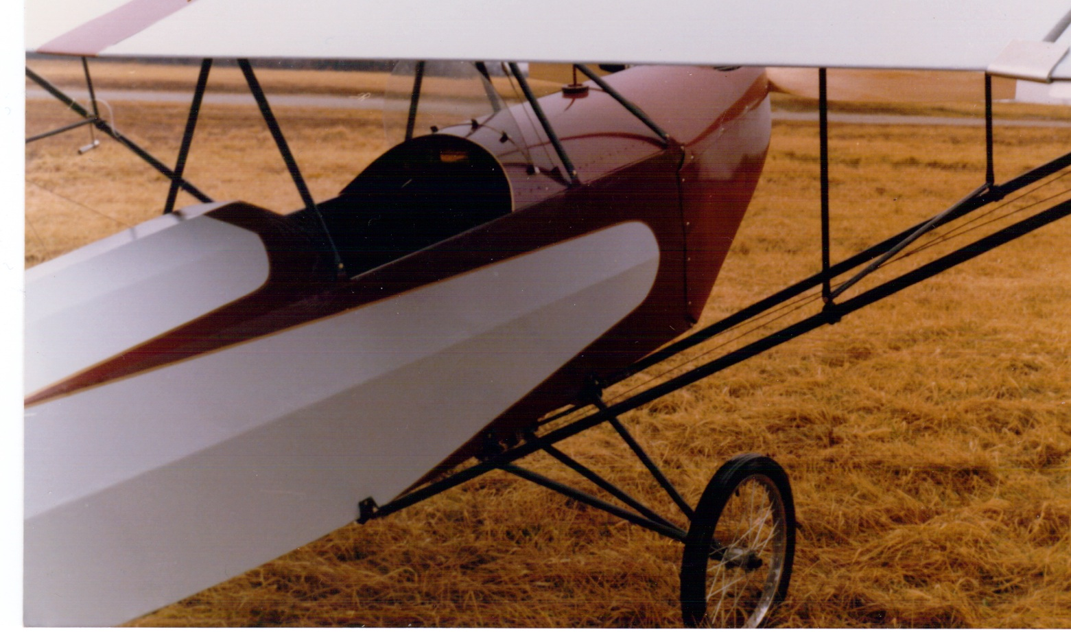 1/4 view of Aerotique Parasol